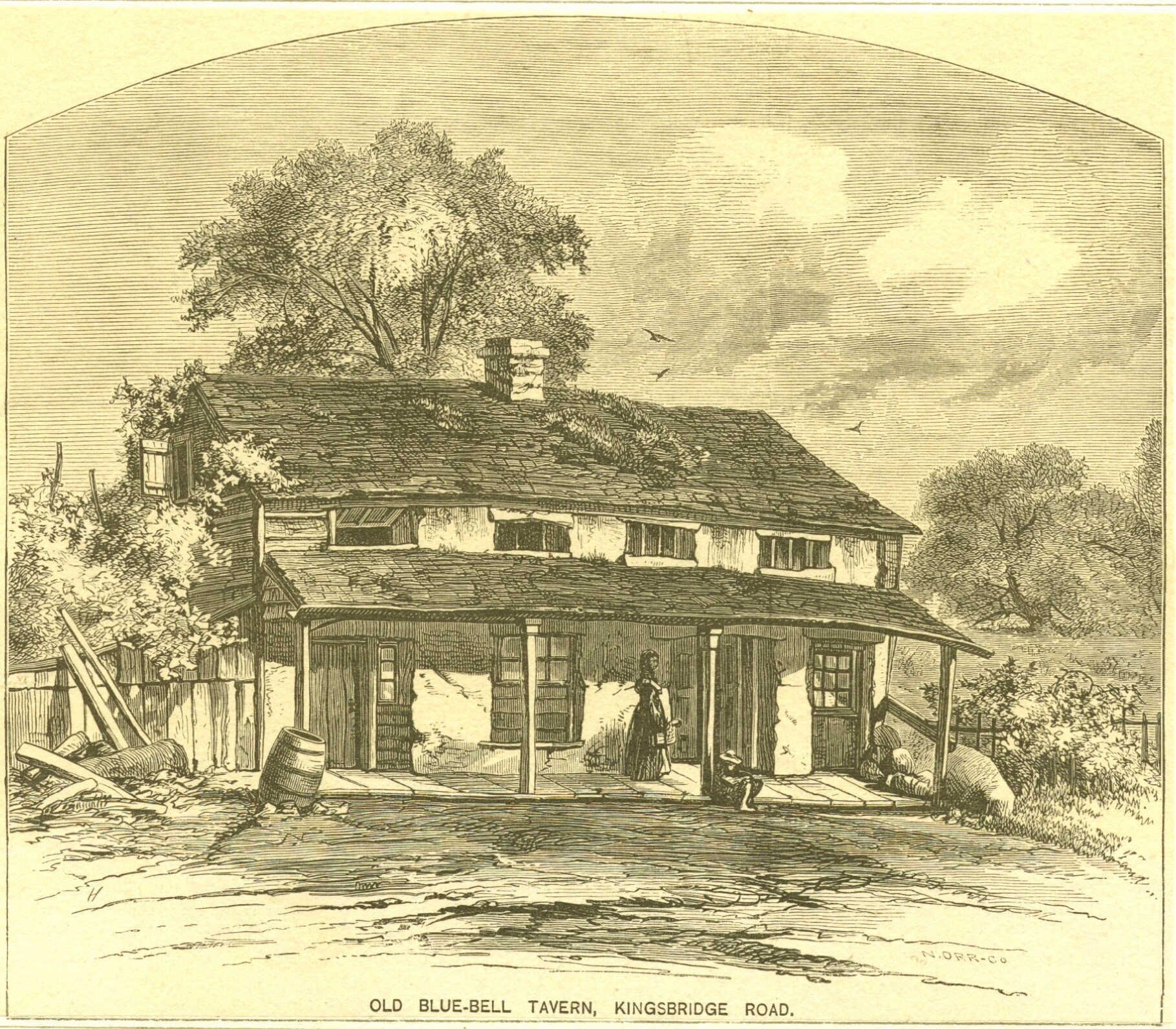 Includes photomechanical reproductions. Title from Calendar of Emmet Collection. EM10627 Statement of responsibility : N. Orr